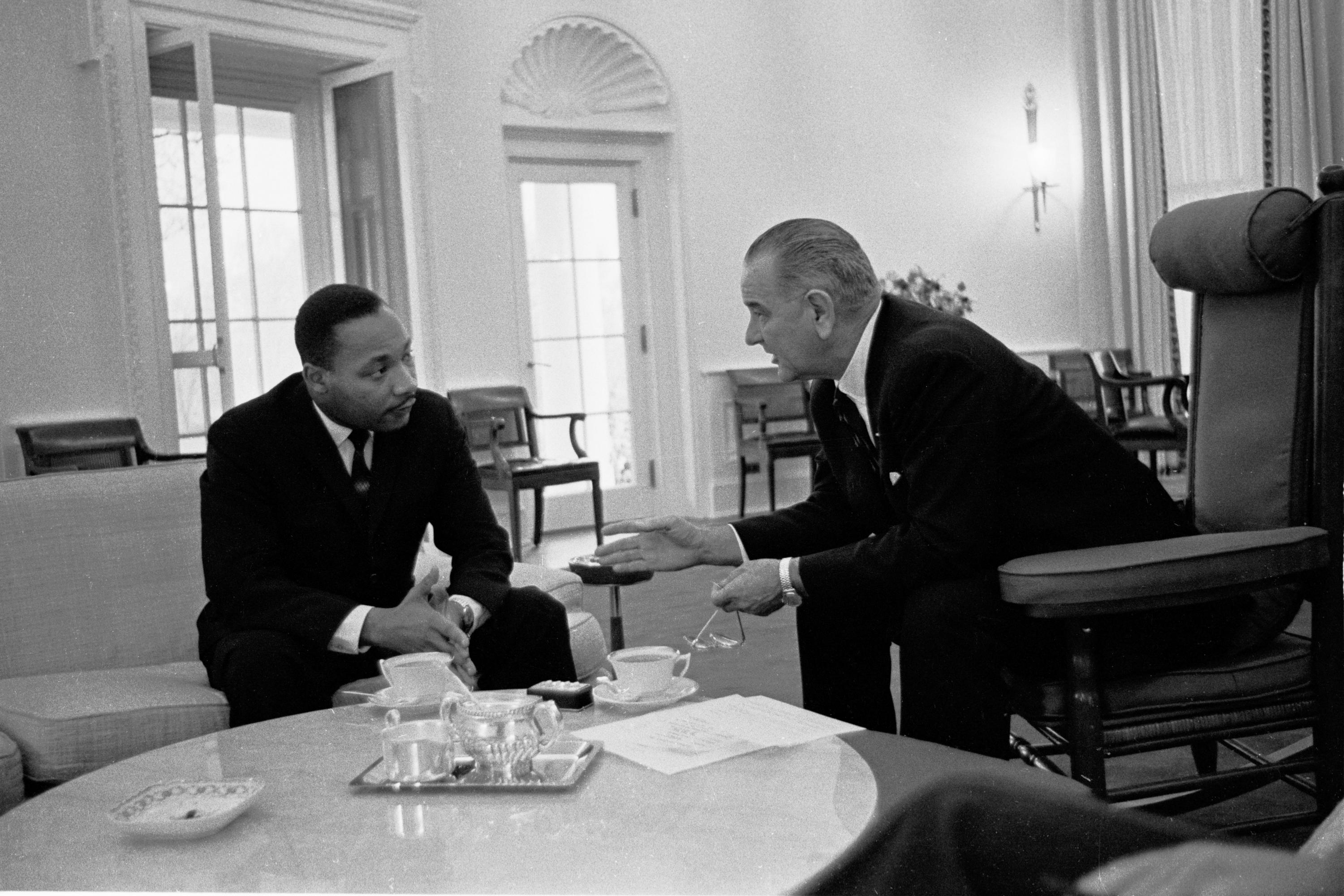 President Lyndon B. Johnson meets with Martin Luther King, Jr.